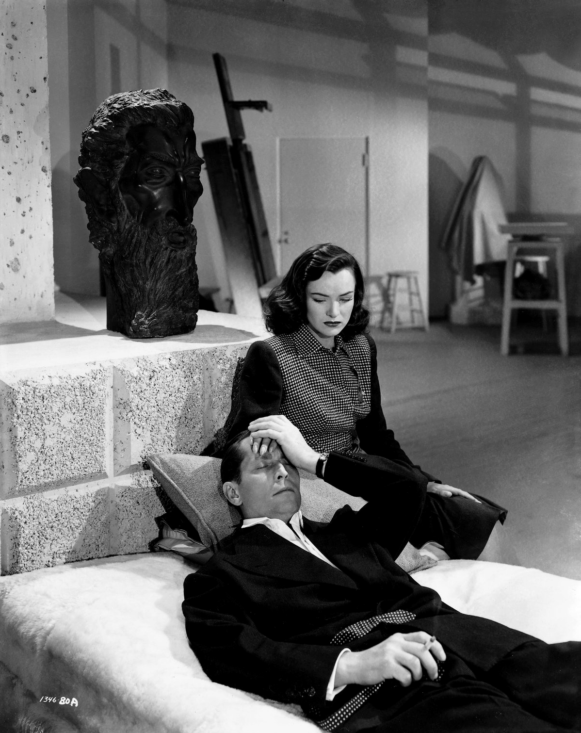 Publicity still of Ella Raines and Franchot Tone in the 1944 film, Phantom Lady